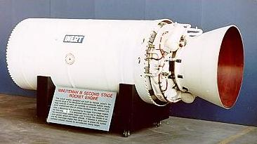 This image was downloaded from - "2. Information presented on the Wright-Patterson AFB web site is considered public information and may be distributed or copied. Use of appropriate byline/photo/image credits is requested."